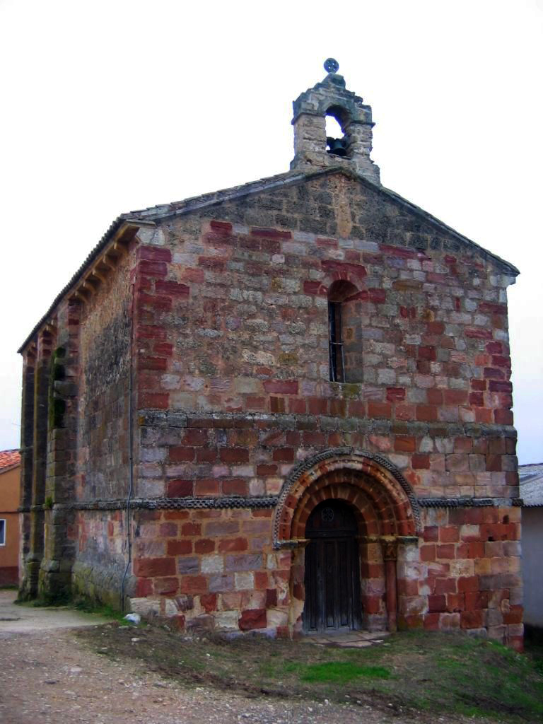 Church of San Vicente in Barrio de la Puebla de San Vicente de Becerril del Carpio (Palencia, Castile and León) declared of cultural interest 05 November 1992. It's a Romanesque church with semicircular plant, built in the 11th century and restored in the 12th century. He was a church of a Benedictine monastery belonged to Elizabeth, wife of Alfonso VI ceded it to the Cluniac Oña in 1103. In the document containing the transfer of the monastery of San Vicente to Oña Benedictine 1103, appears Becerril as a kernel with their own. In 1187 Alfonso VIII gave inheritances in Becerril de Oña monastery obtaining change the transfer of the right and belongings of the village of San Felices, in the province of Burgos. In the book 1351-52 calf, Becerril appears as belonging to the monastery of Santa Maria e San Andrés province. In plant us cone a single oriented rectangular nave from East to West, with cover, semicircular apse of access in the gable - García Guinea considers the position of the cover is a variant of the rectangular nave churches. Attached to the south wall is the rectangular body the sacristy and next to it, in the presbytery, the truncated spiral staircase angle.